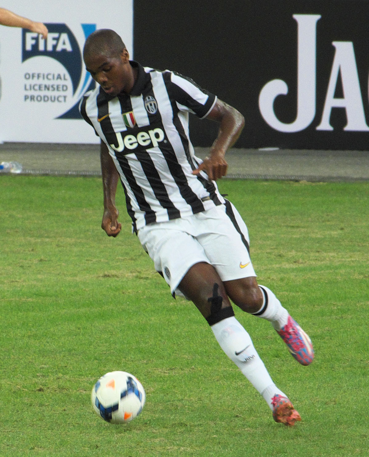 Angelo Ogbonna, Singapore Selection vs Juventus @ National Stadium